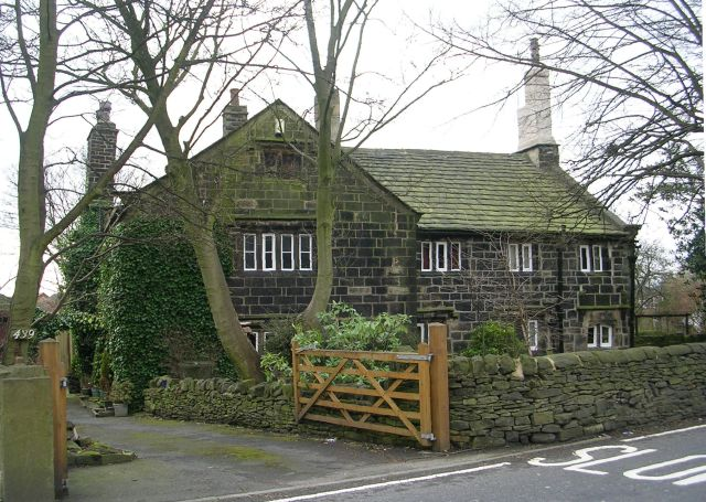 439 Shetcliffe Lane